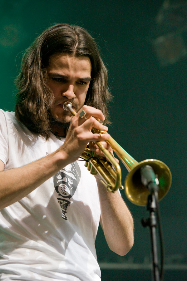 Pablo Giw at moers festival